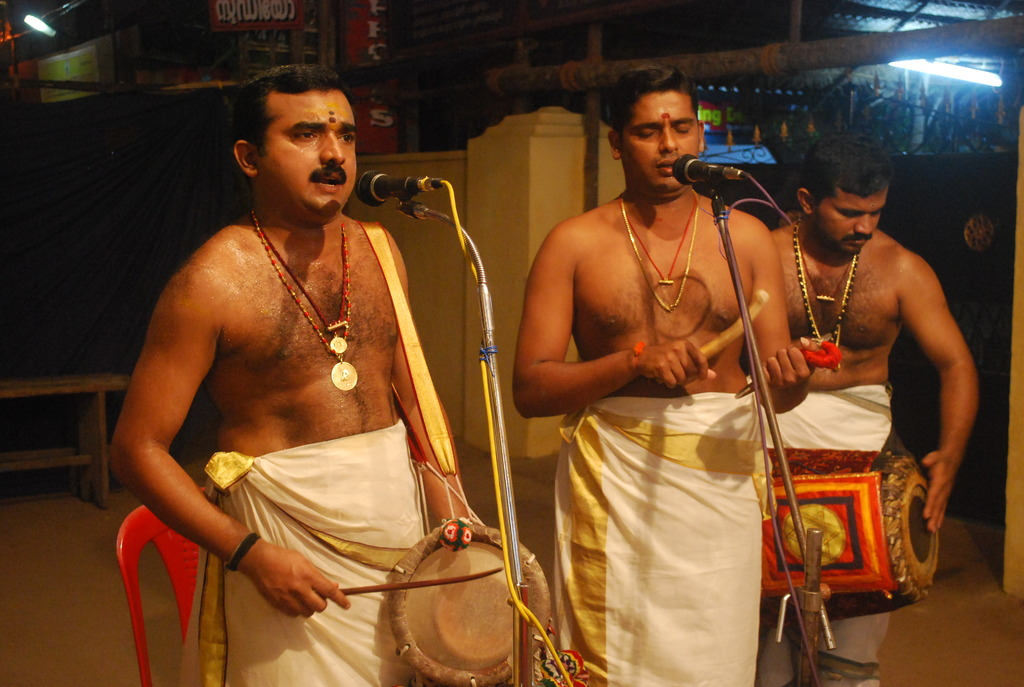 Ambalapuzha gopakumar singing sopanageetham